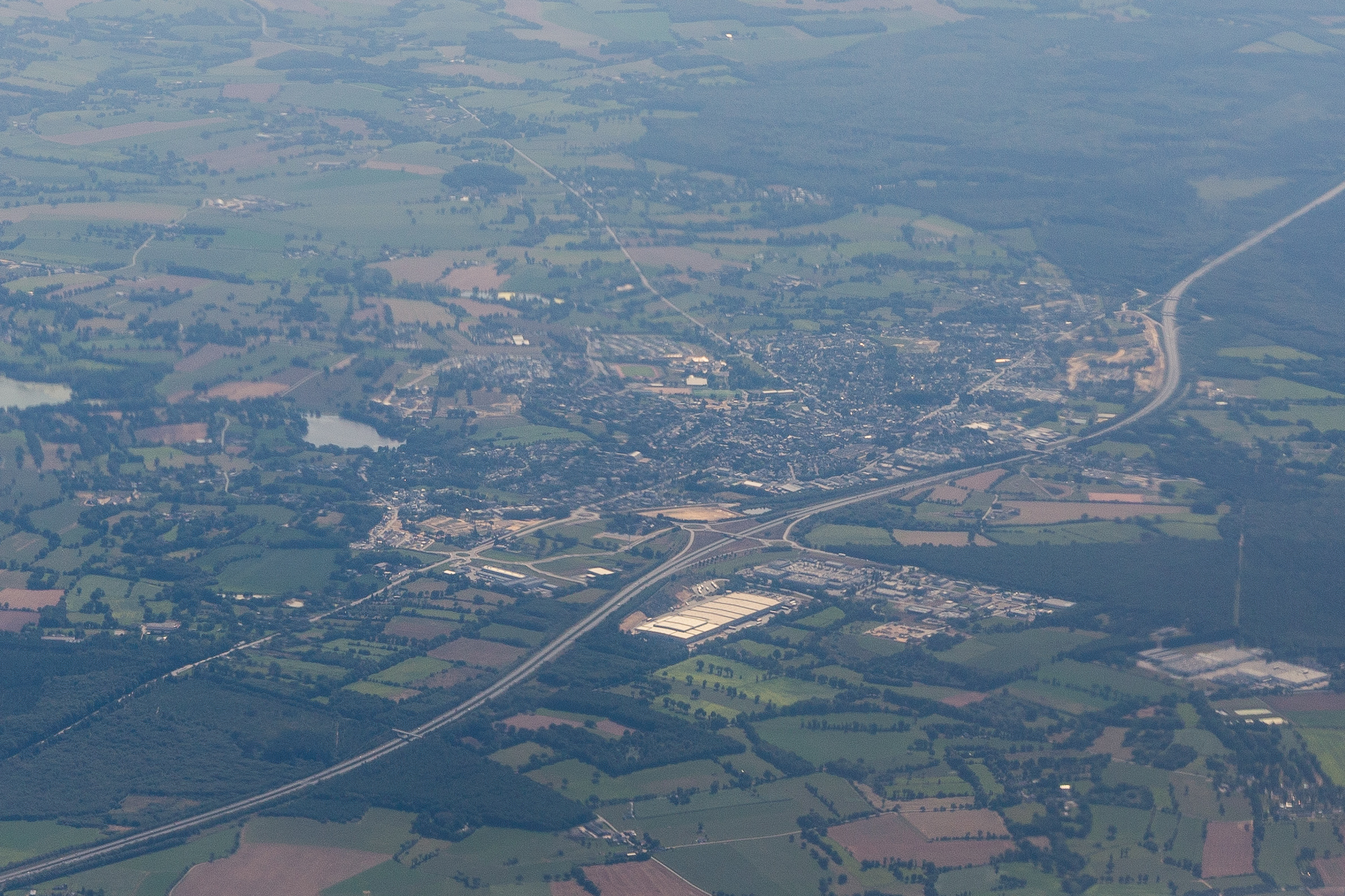 Aerial view of Liffré during a flight from CDG to RNS.